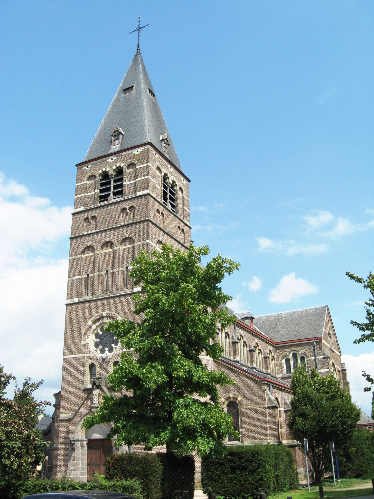 Church of Saint Lawrence in Kozen, Nieuwerkerken, Limburg, Belgium